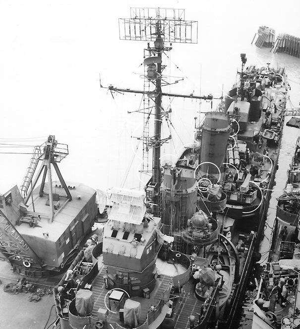 USS Young (DD-580) at the Mare Island Navy Yard, California, 30 July 1945. Note details of her open bridge. White outlines mark recent alterations to the ship.